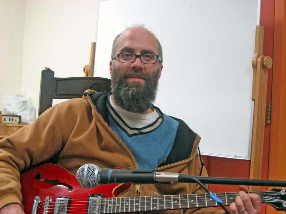 Reobert Arellano, live at KLDK